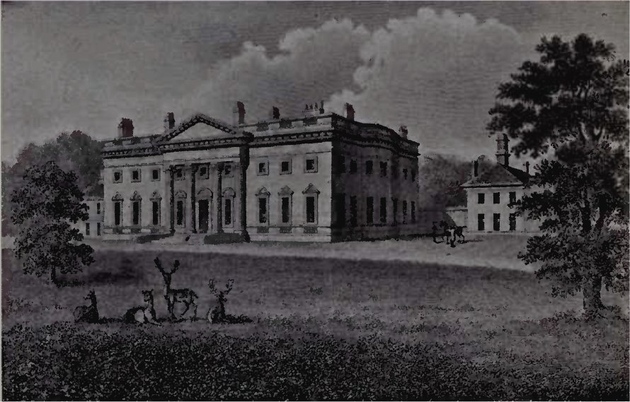 Denton Hall, Wharfedale, Yorkshire, England, circa 1800